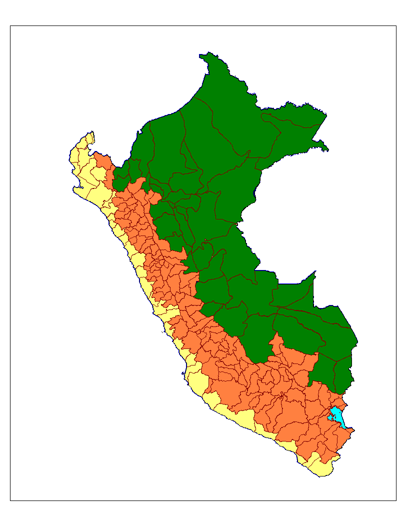 Provinces of Peru per Costa-Sierra-Selva.